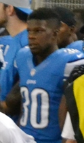 Detroit Lions running back Kevin Smith